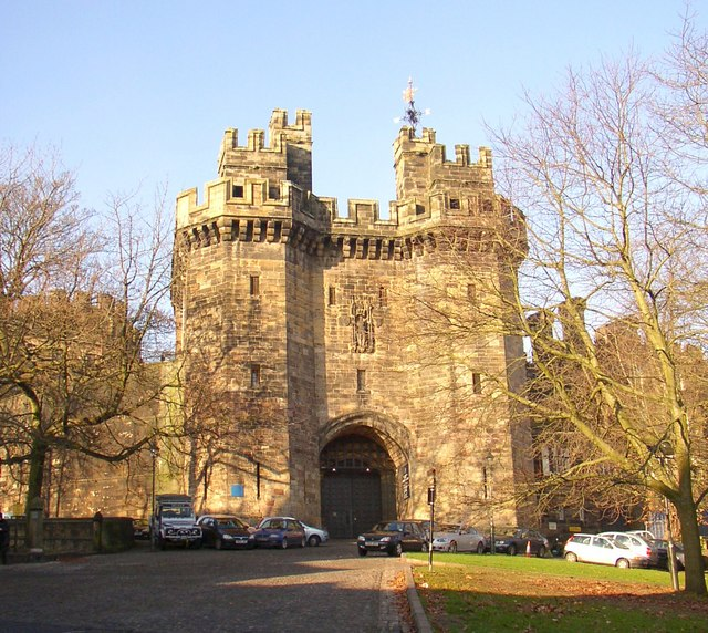 The gateway to Lancaster Castle, Lancaster This gatehouse is a 14C structure, and bears the arms of Henry IV and Henry V as Prince of Wales. There is a statue of John of gaunt in the centre of the wall.